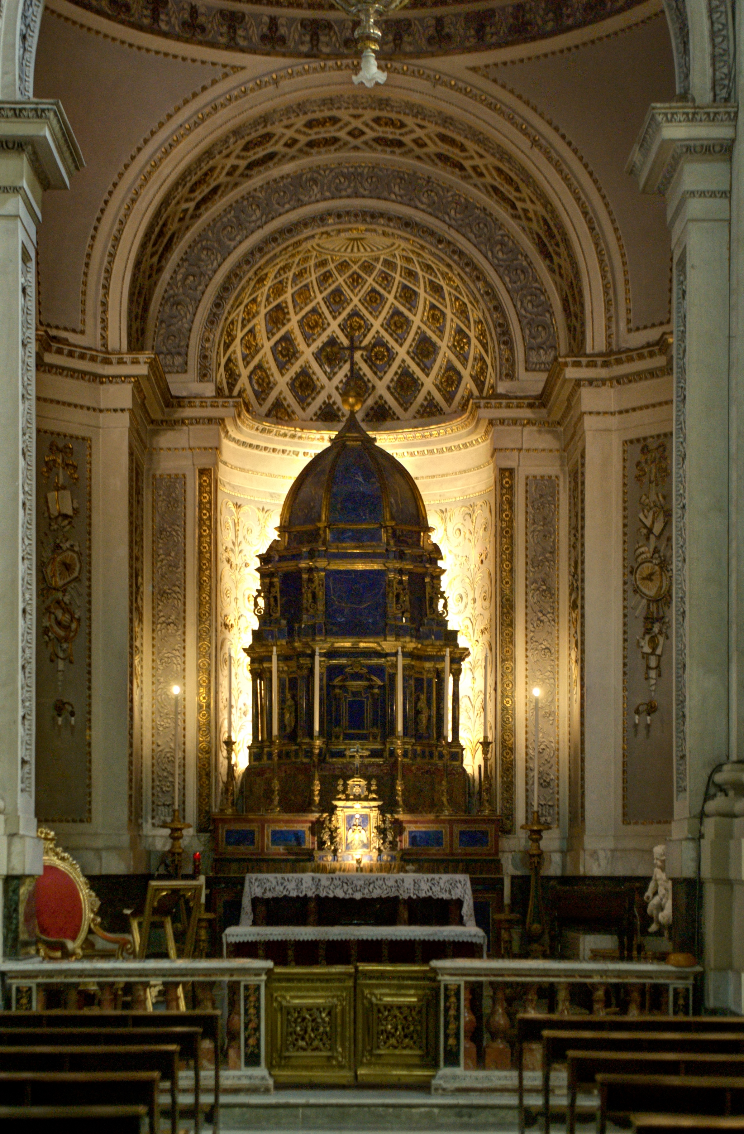 Italy, Sicily, Palermo, cathedral